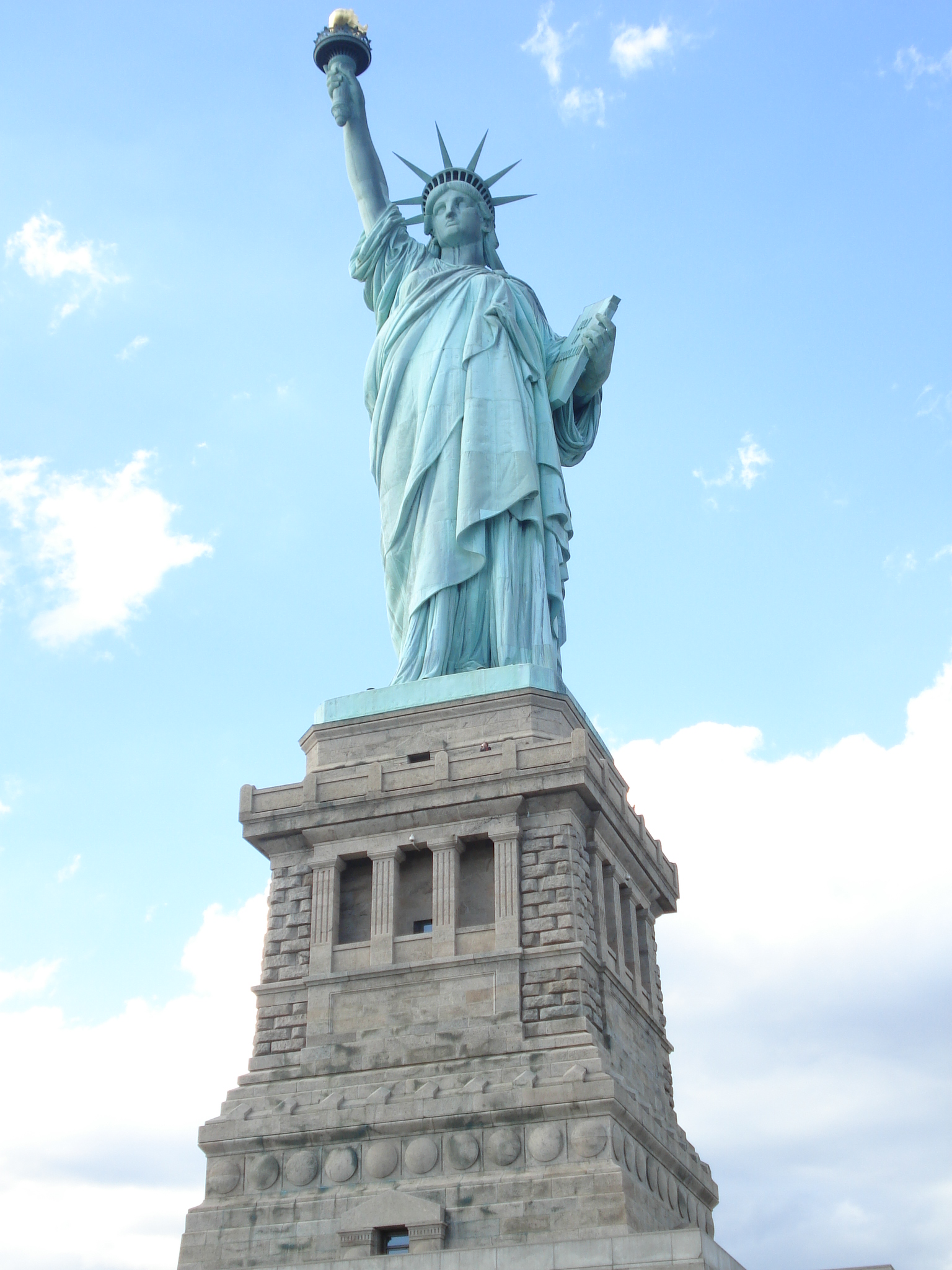 Statue of Liberty in the afternoon